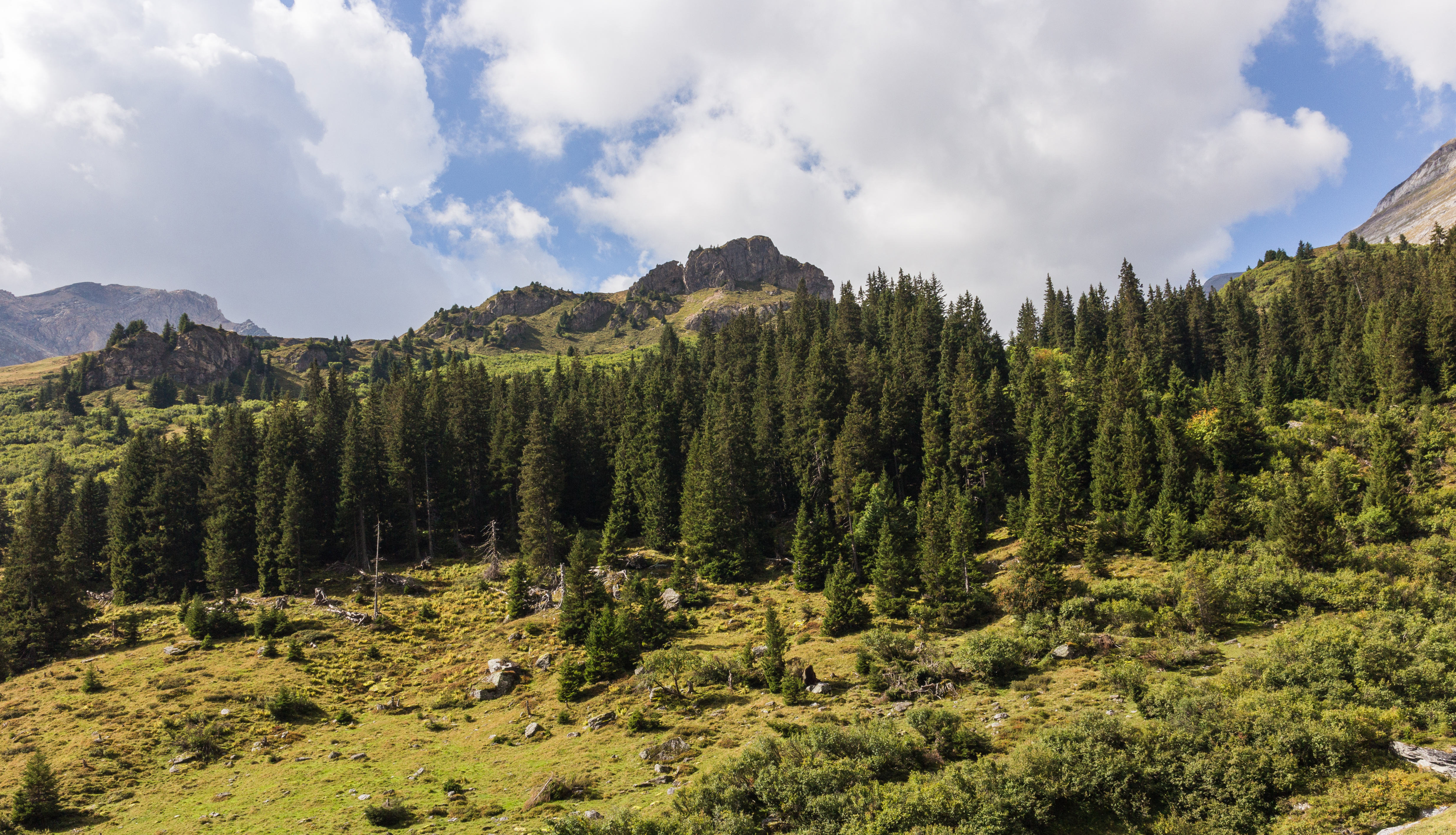 Breil/Brigels direction Val Frisal. Rocks above Chischarolas.